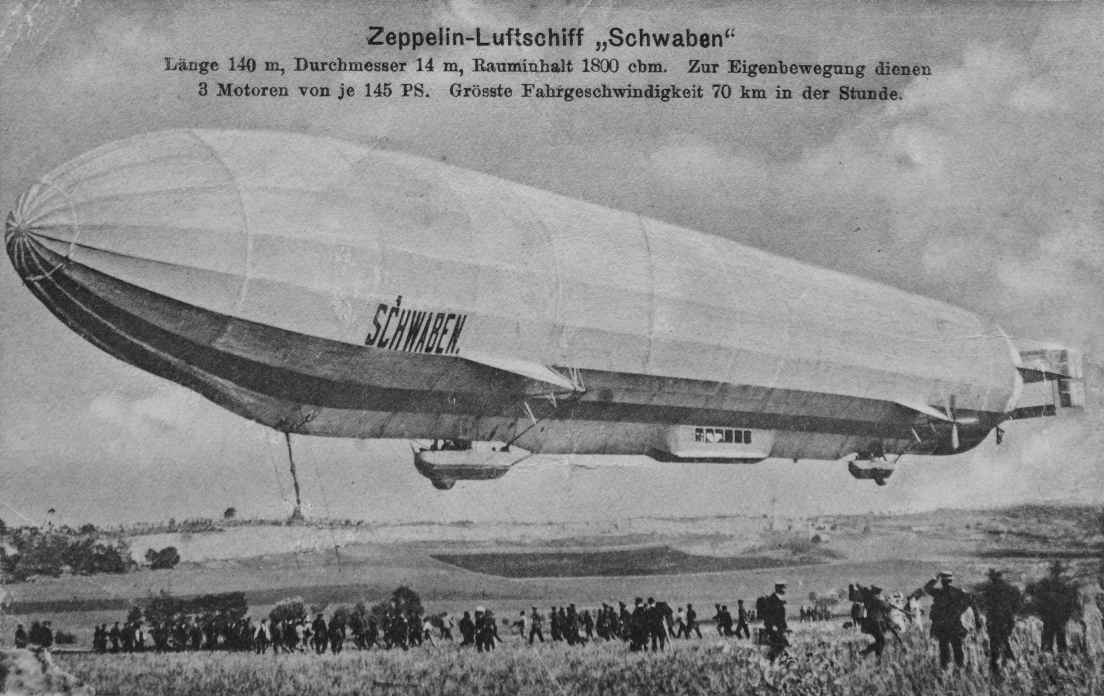 Postcard of the Zeppelin airship “Schwaben”. Thüringer Kunstverlag A. Gimm. Gotha (Germany), circa 1912.